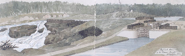 Painting of the Hog's Back Dam on the Rideau Canal.